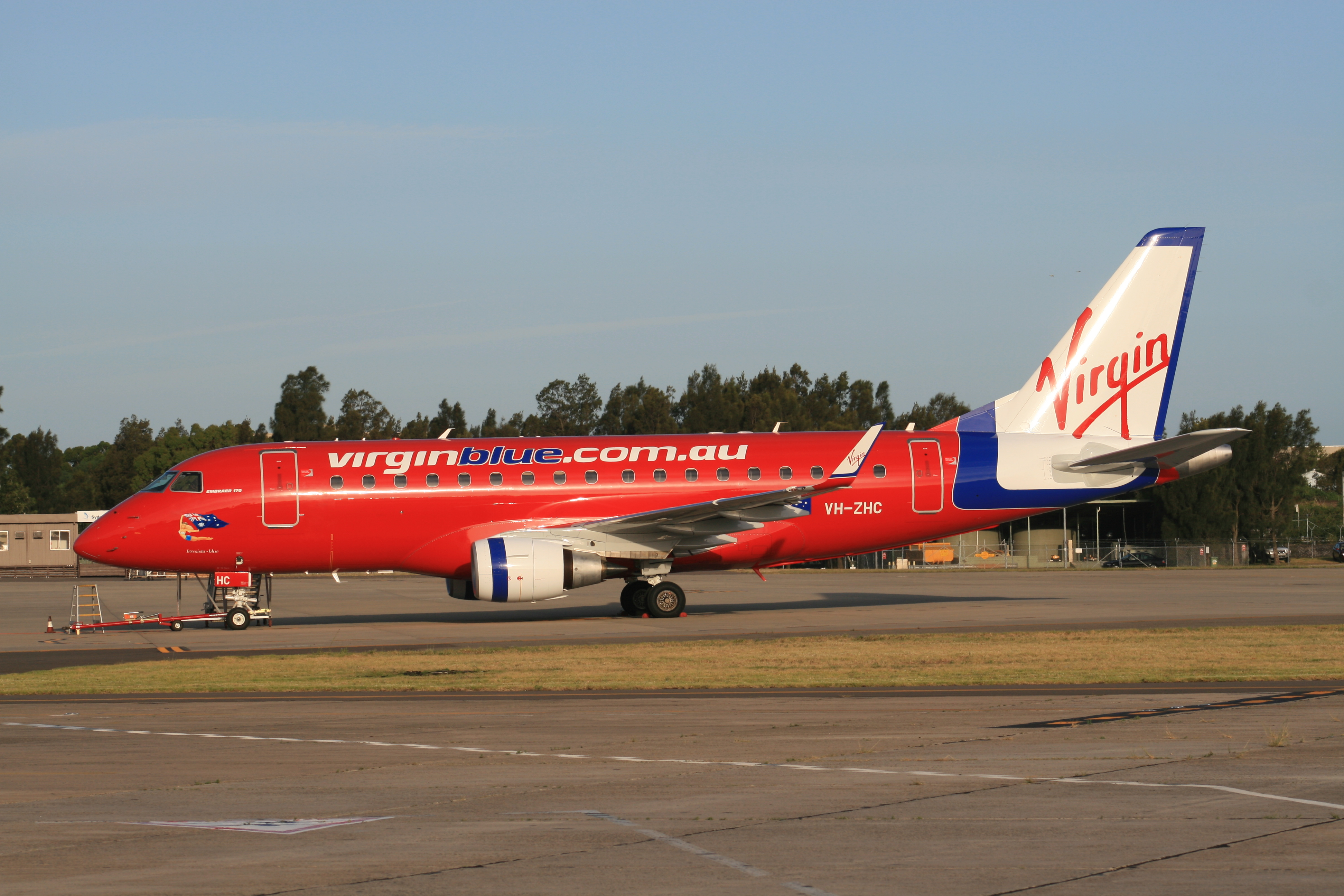 One of Virgin Blue's three initial Embraer ERJ-170s in service. Digital photo of VH-ZHC taken at Sydney Airport on 2 January by YSSYguy & uploaded for use in the Virgin Blue article